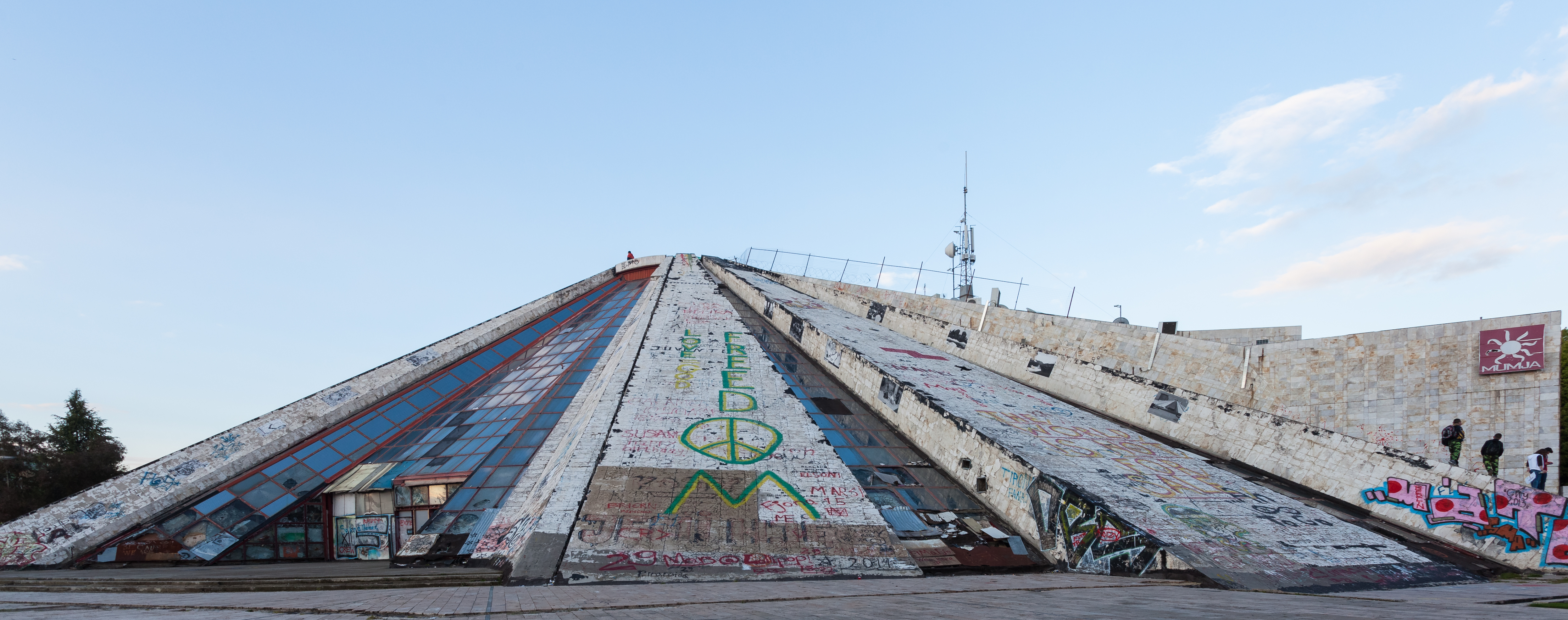 Pyramid, Tirana, Albania